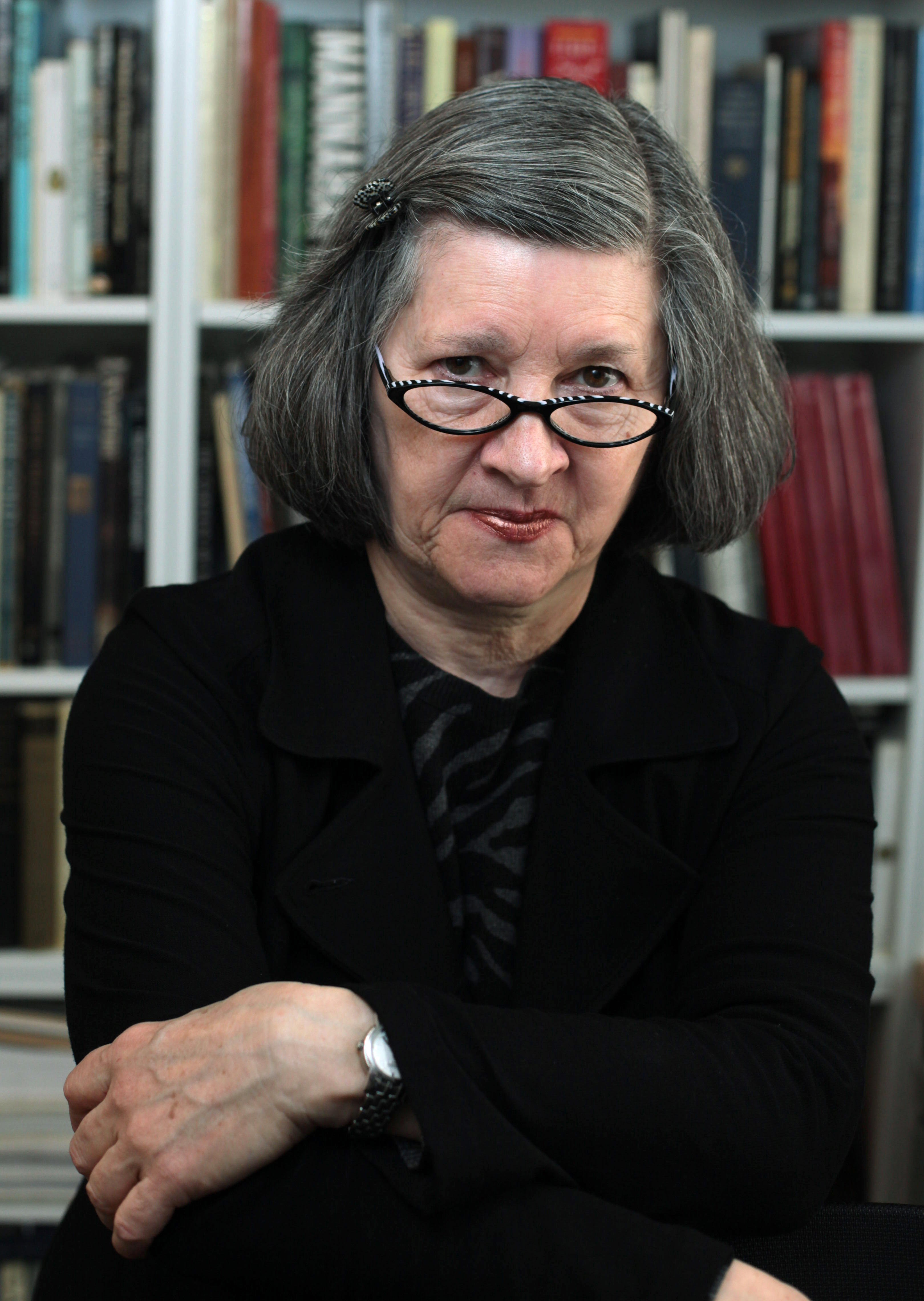 Photo of Prof Elizabeth Simpson, Bard Graduate Center on April 17, 2013, in New York City. (PHOTOGRAPH BY MICHAEL NAGLE)